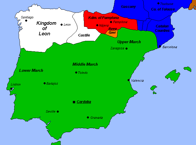 Author:Sugaar Legend:Caliphate of Cordoba in early 10th century. Green: Caliphate of Cordoba (it also exerted domain/overlordship over most of North Africa, not shown) Blue: Kingdom of France (divided in several fiefs) White: Kingdom of Leon (County of Castile was quasi-independent) Red: Kingdom of Pamplona Orange: Banu Qasi pseudo-autonomous province within Caliphate Cordoba